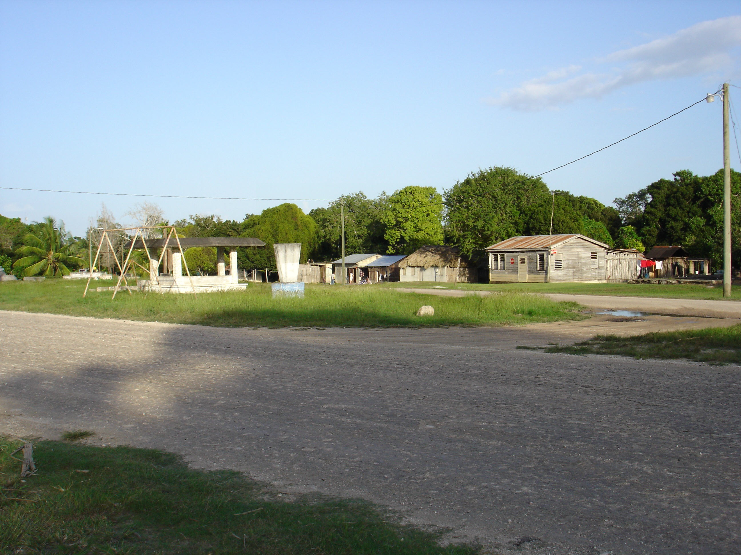 A public park on the south end of Patchakan, Belize